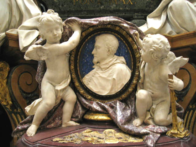 Medallion representing Ludovico cardinal Ludovisi, detail from the tomb of Pope Gregory XV Ludovisi and of his nephew, by Pierre Legros the Younger (1709-1714). Sant'Ignazio, Rome, Italy.